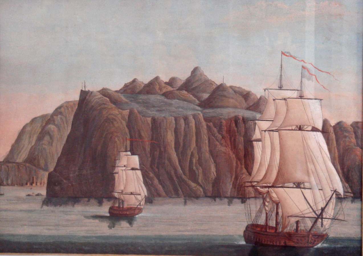 Ashes of Napoleon being brought back from St Helena.